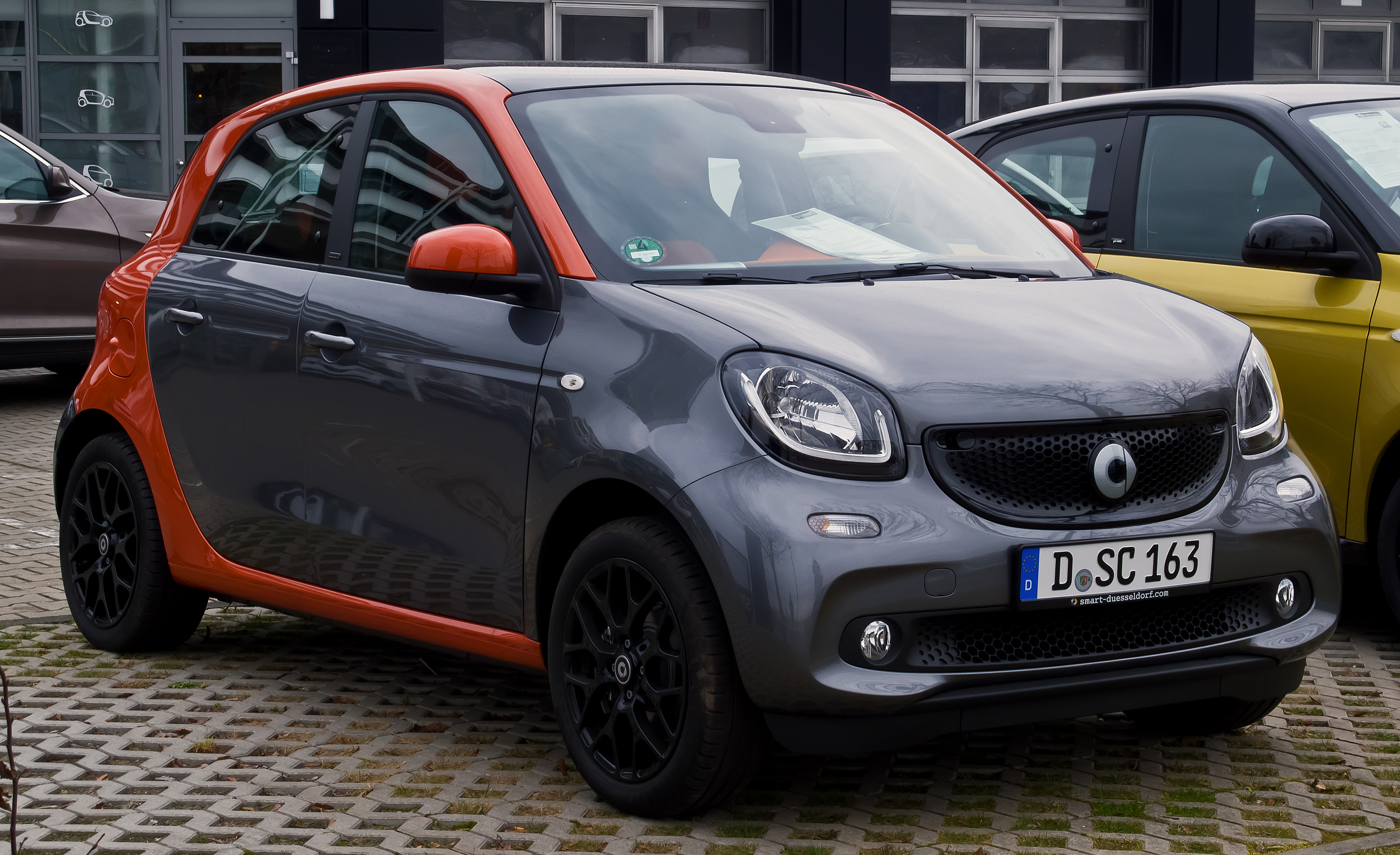 Smart Forfour 1.0 Edition #1 (W 453)